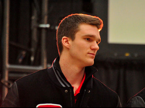 Canadian forward Jonathan Huberdeau during a press conference for the 2012 World Junior Championships on December 23, 2011, in Edmonton, Alberta.